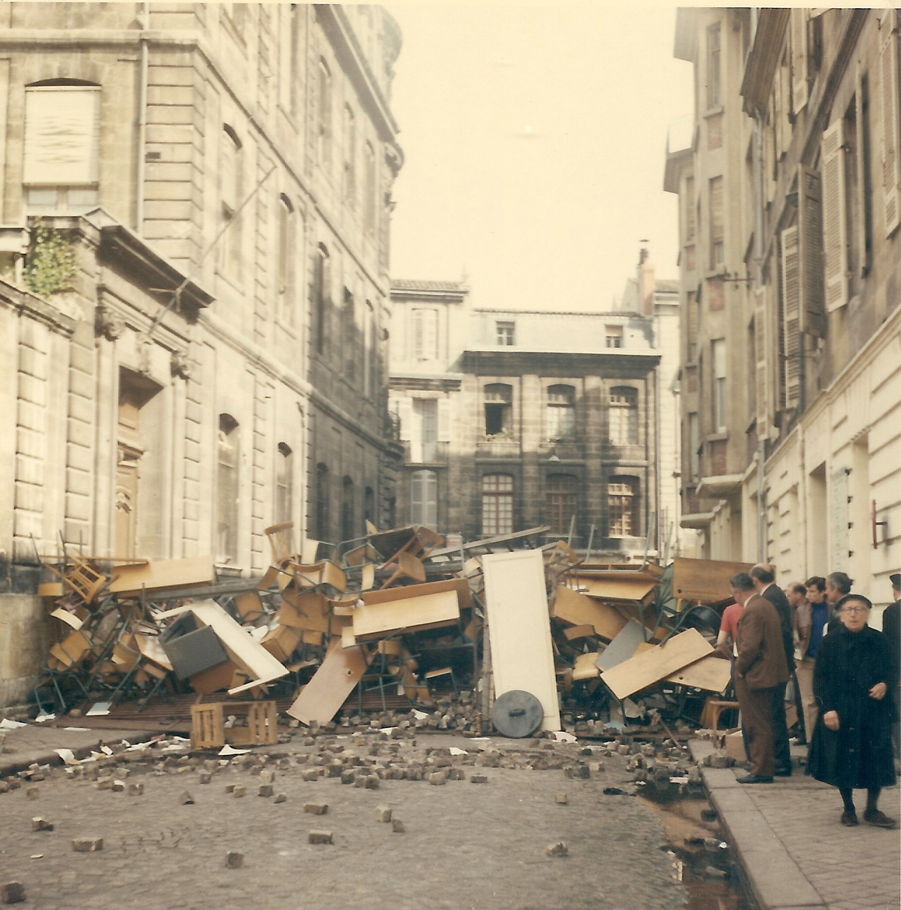 Demonstrations of may 1968 in Bordeaux (Gironde, France) - Rue Paul-Bert.